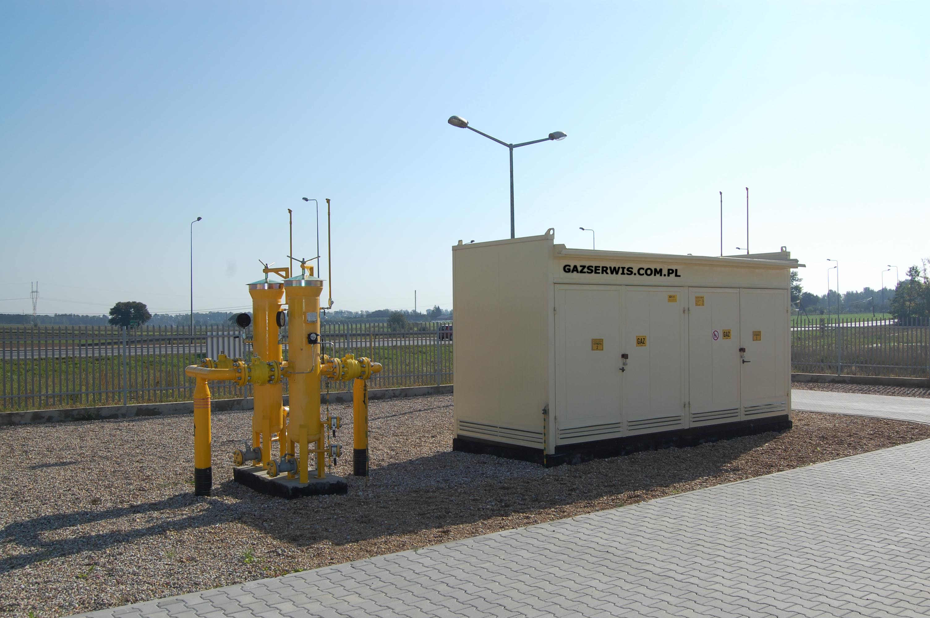 Natural gas pressure reduction and metering station.